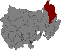 Location of la Baronia de Rialb in Noguera